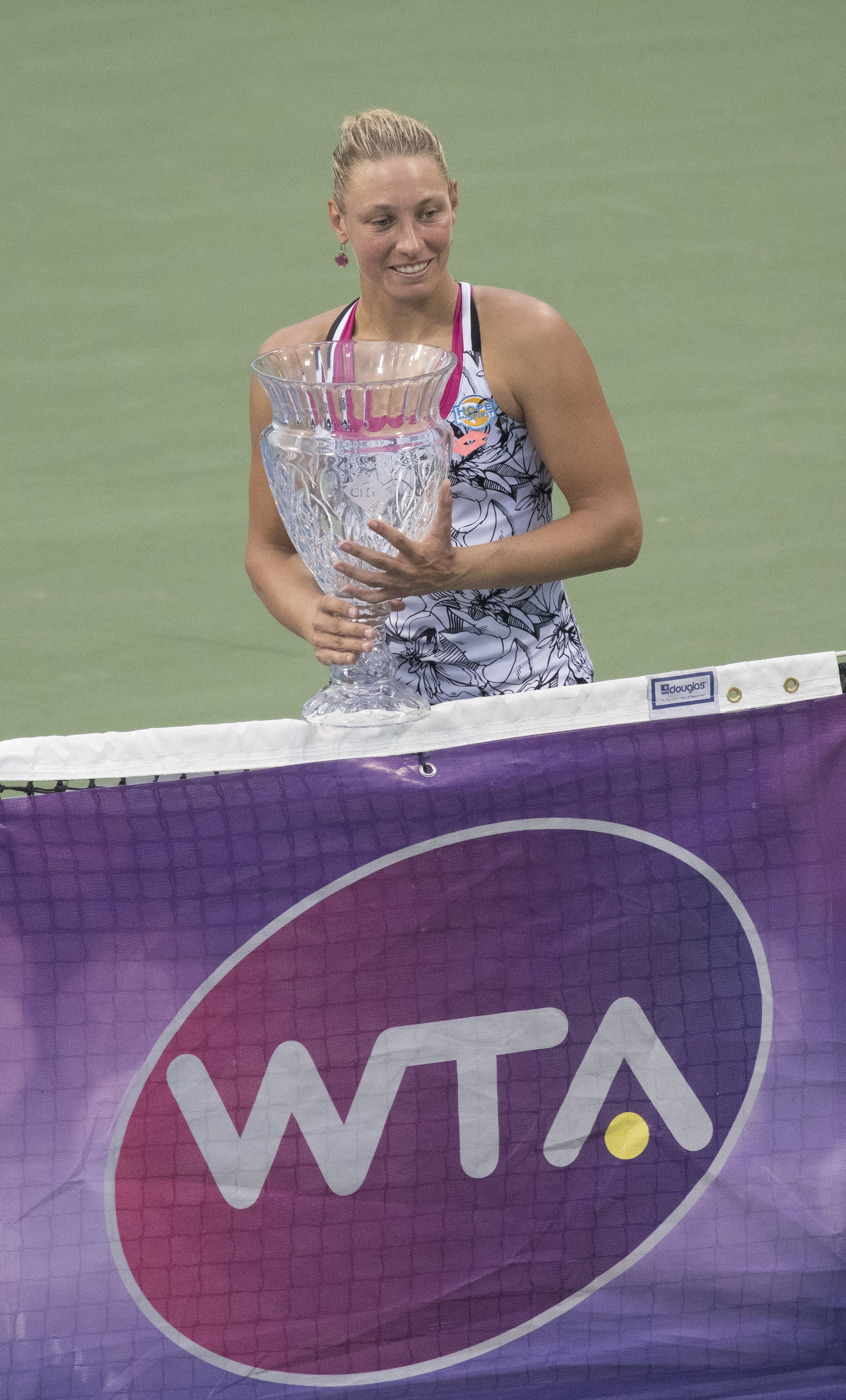 2016 Citi Open Finals 7/24/16